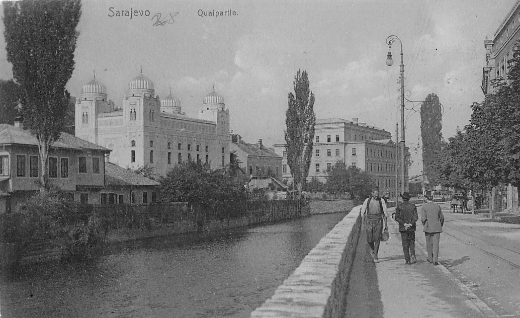 Ashkenazic synagogue built 1902 near the river Miljacka, Sarajevo. Photo from 1914.